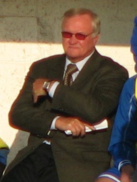 Ron Atkinson in the dugout at Halesowen Town vs Brackley Town at The Grove, Halesowen on 20th October 2007. Photo taken by me, Pontificake